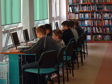 Internet in Bemowo Library.